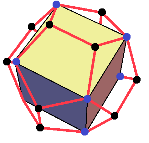 Cube in dodecahedron